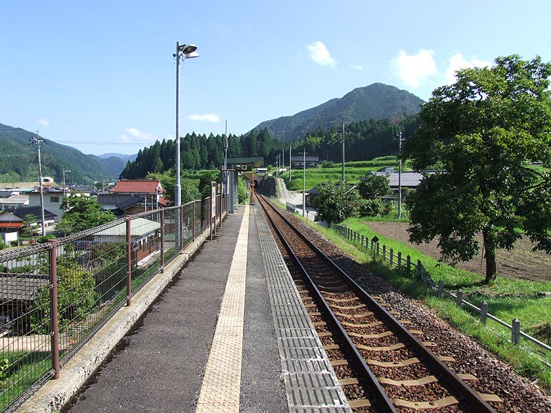 Chizu express railway Chizu line. Nishi-Awakura station.